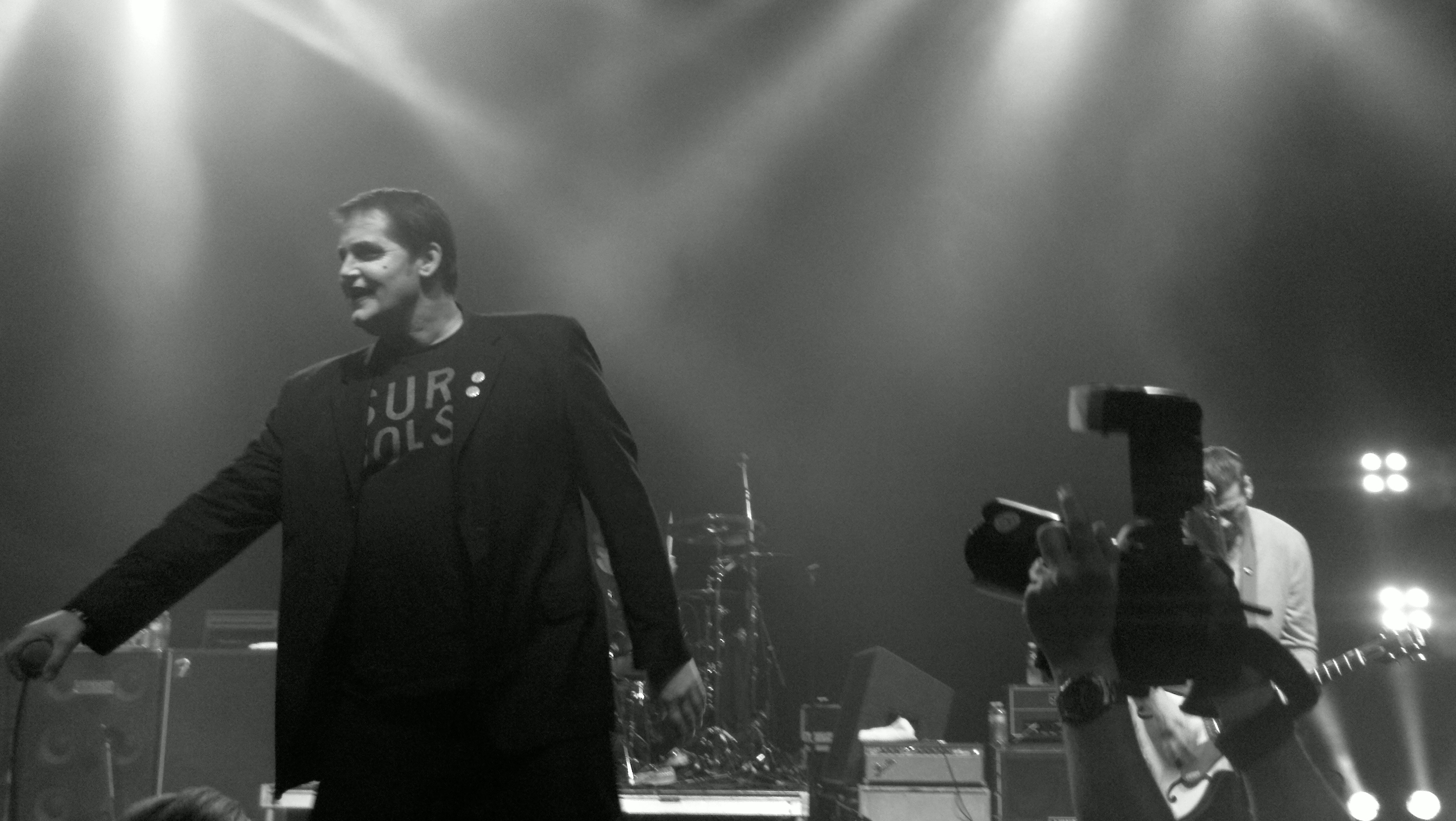 TSOL singer Jack Grisham performing December 17, 2011 at the Santa Monica Civic Auditorium in Santa Monica, California as part of the GV30 event.